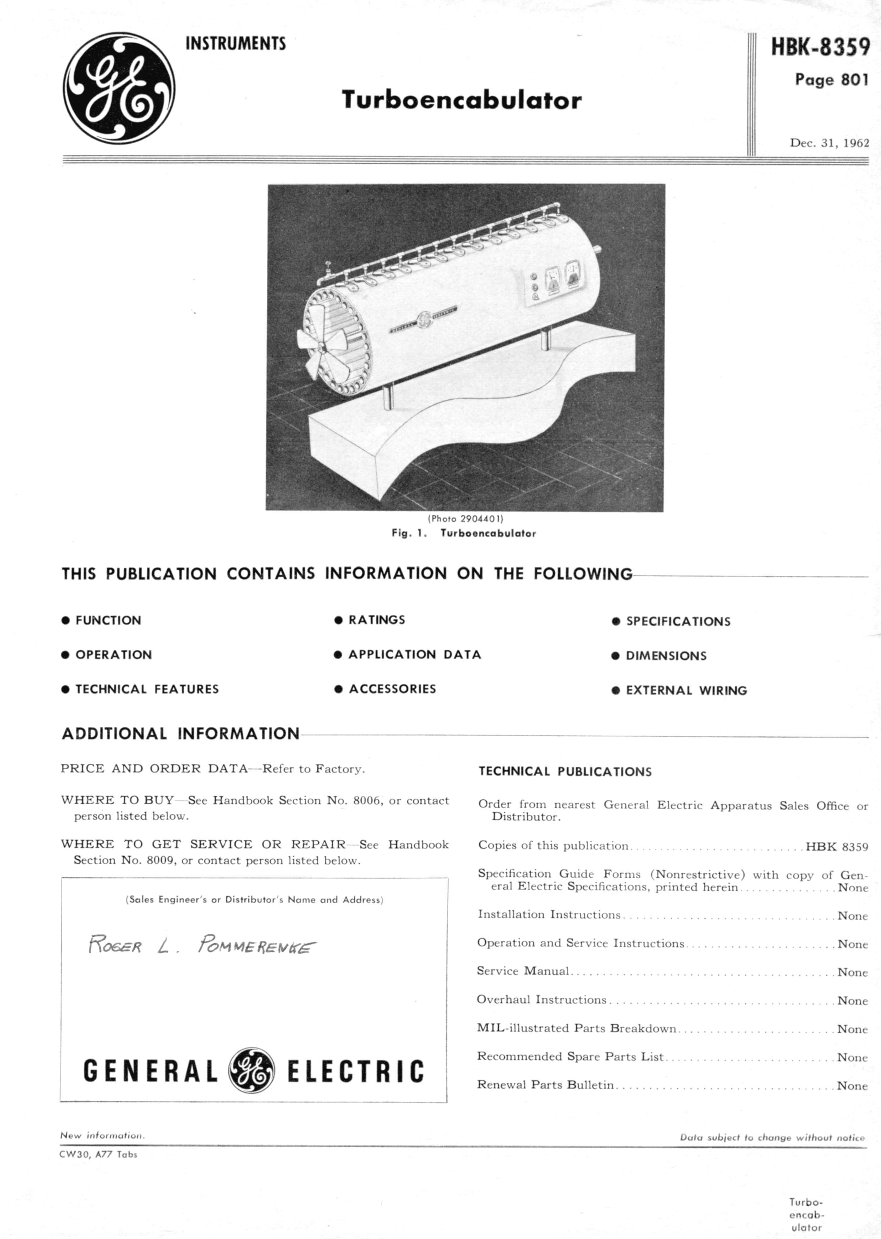 Parody documentation page describing the fictitious Turboencabulator.